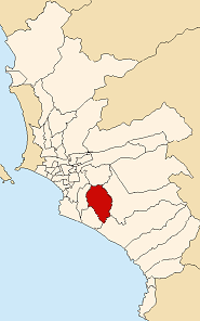 Map of Lima highlighting the Villa María del Tríunfo district in Lima.